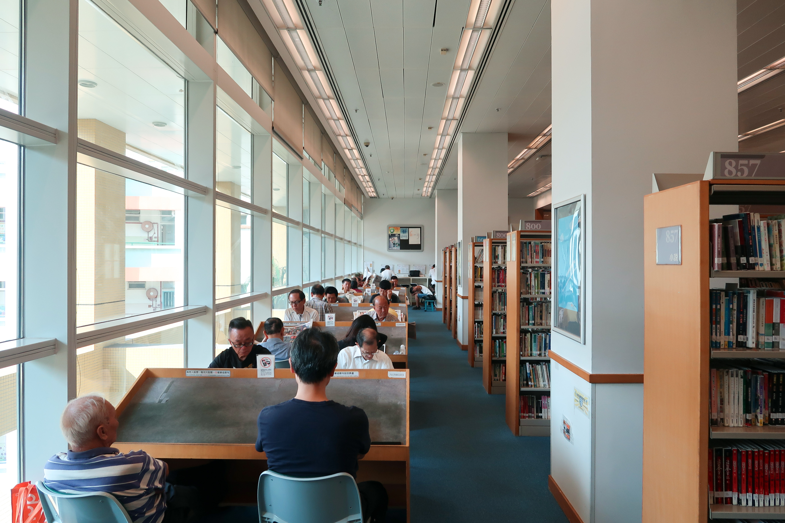 Tai Kok Tsui Public Library Interior